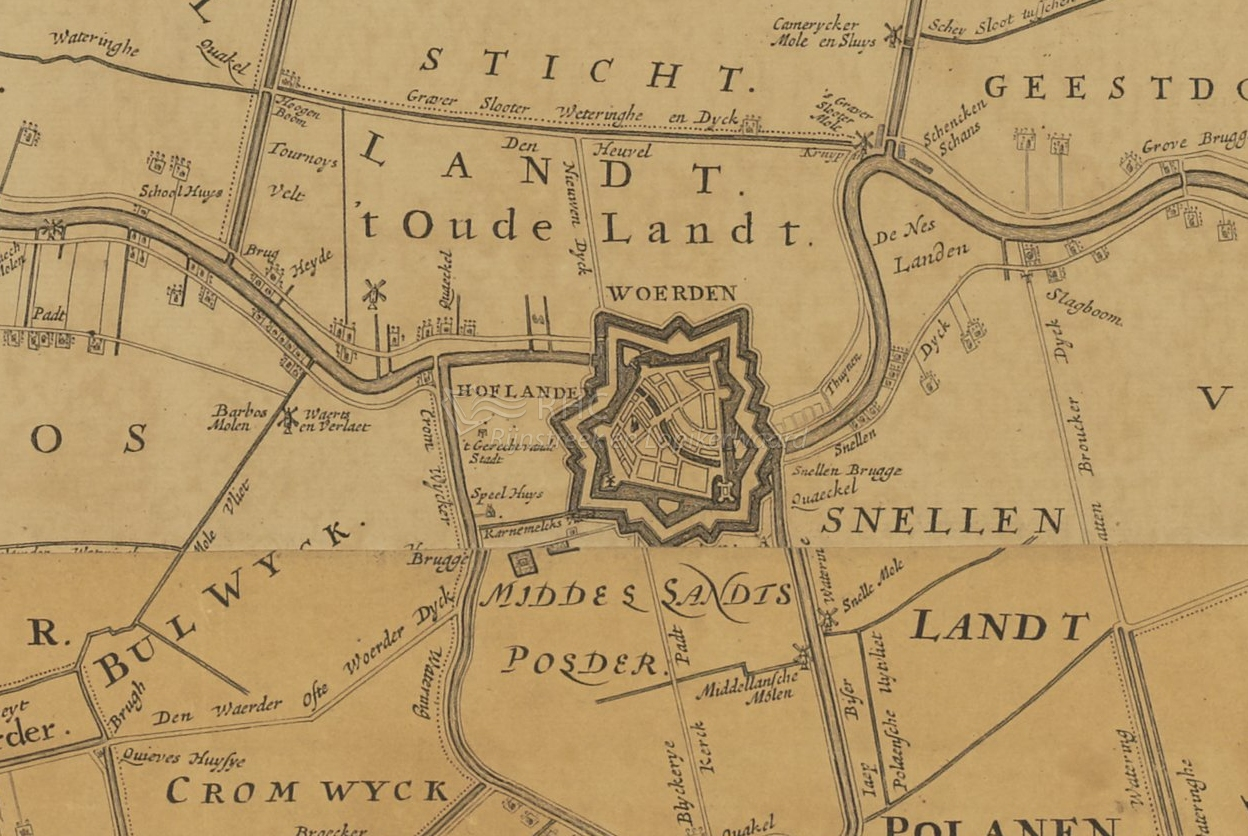 Map of waterways and roads around Woerden